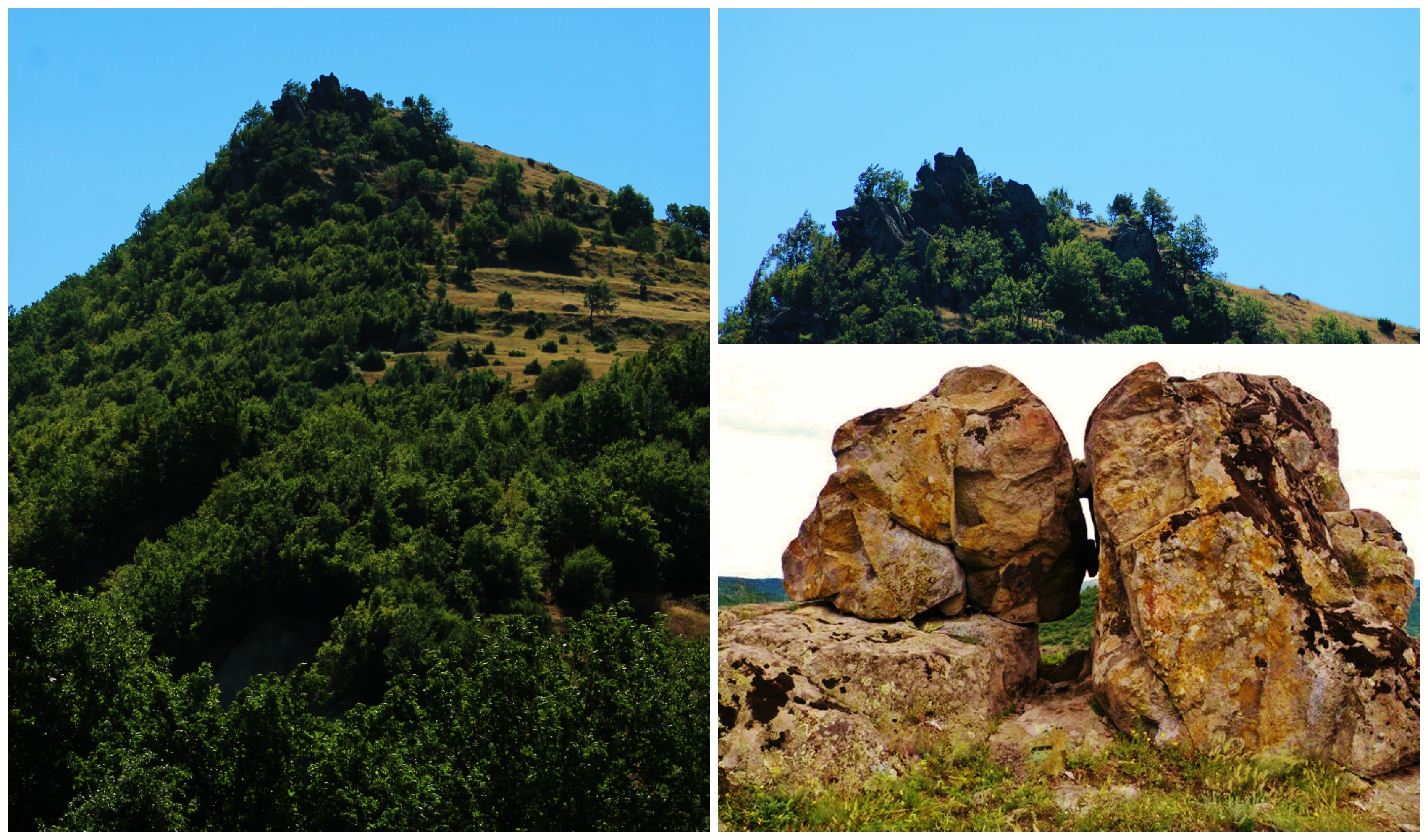 Tzarkvishte Sanctuary Gospodintzi Bulgaria